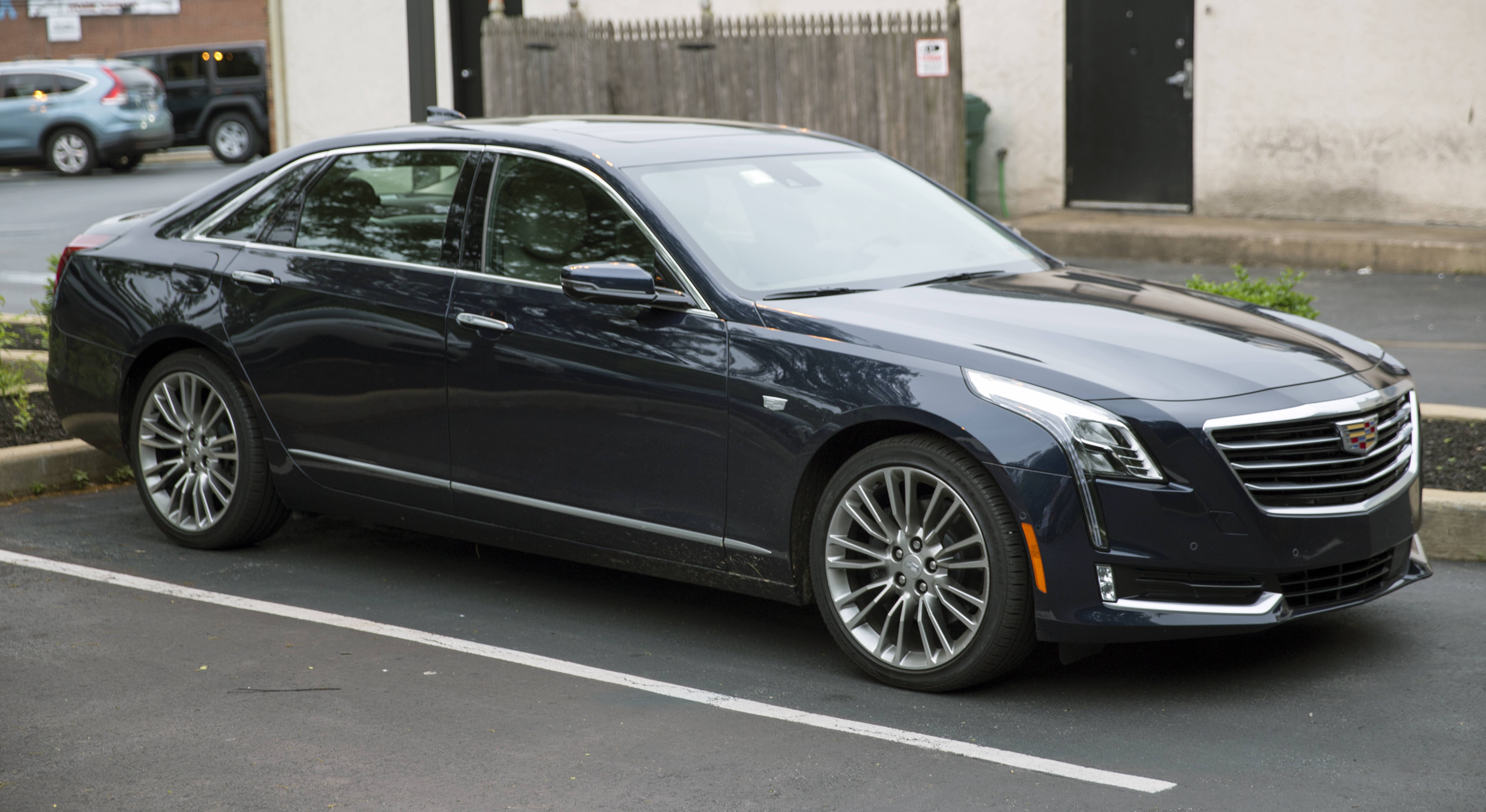 A 2018 Cadillac CT6 Premium Luxury AWD Super Cruise in Dark Adriatic Blue Metallic with Platinum interior. 3.6-liter V6, 8-speed auto, model code 6KL69.